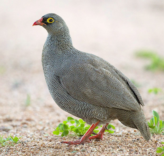 Red-billed Spurfowl/Red-billed Francolin from Namibia